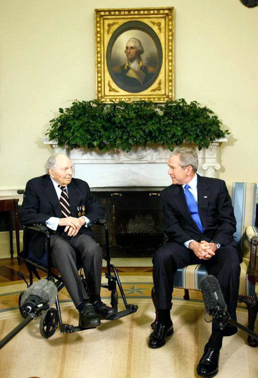 President George W. Bush welcomes Cpl. Frank Woodruff Buckles, the last known surviving American-born WWI veteran, to the Oval Office Thursday, March 6, 2008. The President told the 107-year-old, "...One way for me to honor the service of those who wear the uniform in the past and those who wear it today is to herald you, sir, and to thank you very much for your patriotism and your love for America." White House photo by Eric Draper